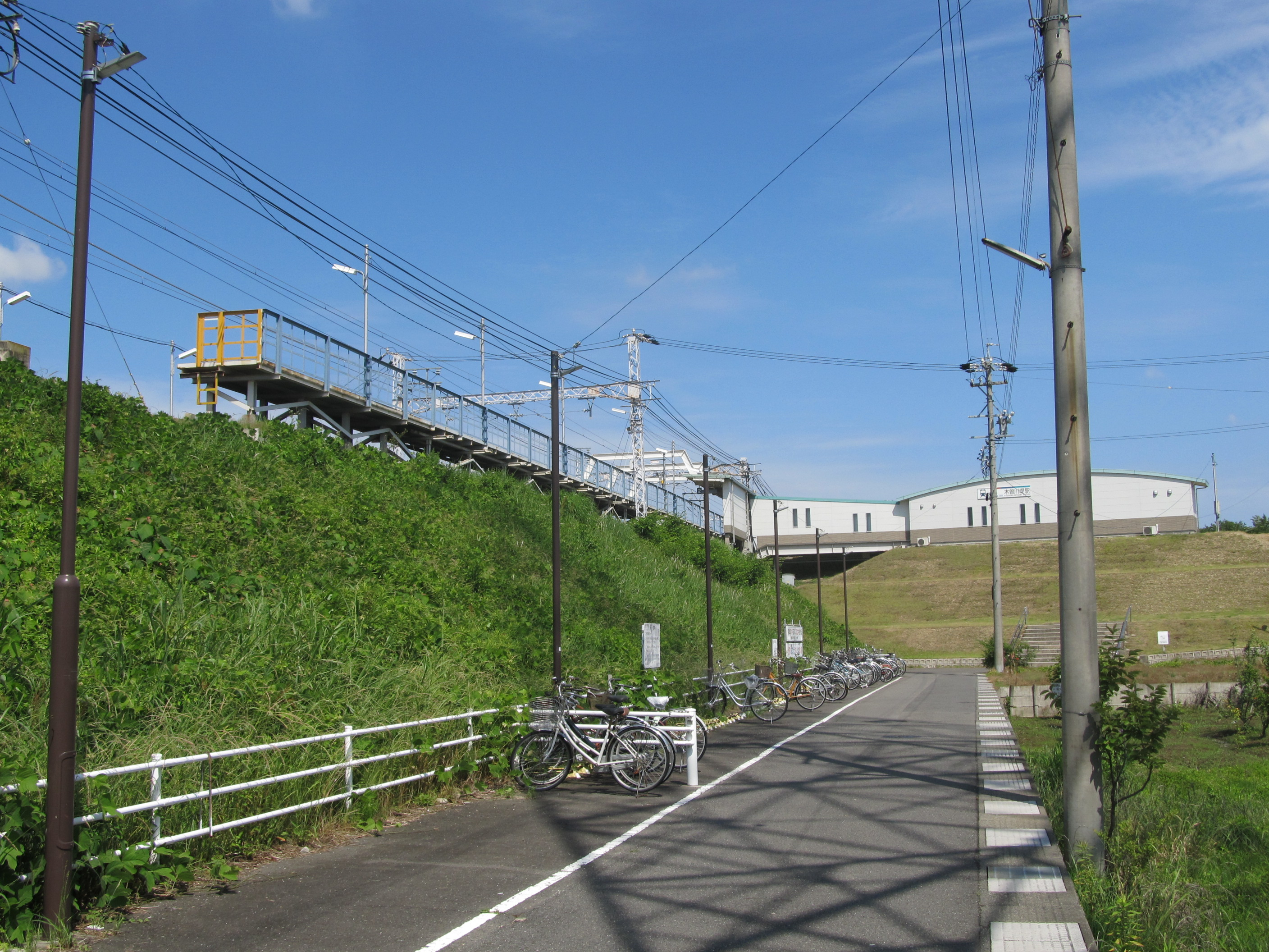 Nagoya Railroad Nagoya Main Line Kisogawa-zutsumi Station